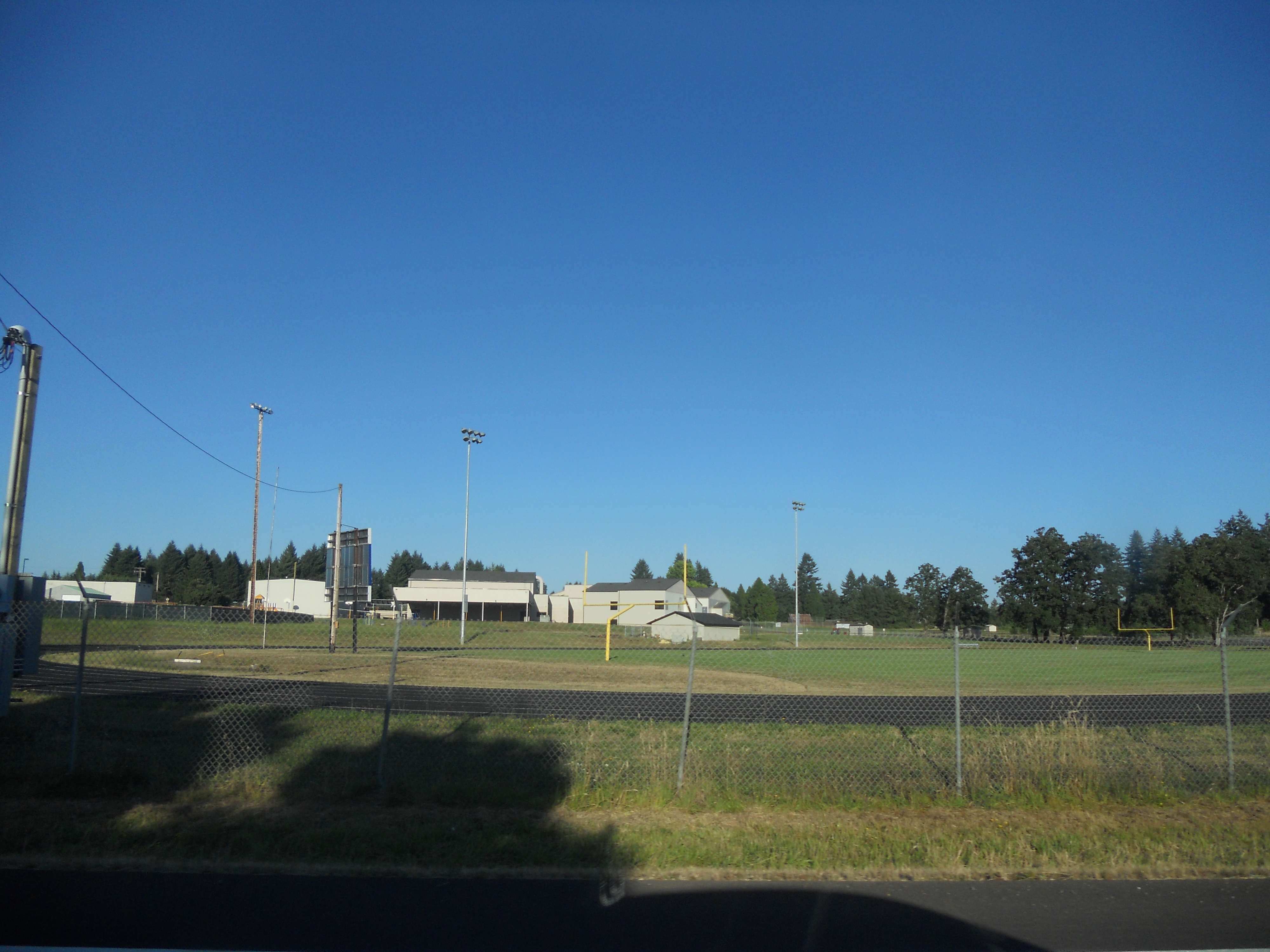 Football and baseball fields next to Oregon Route 58 at Pleasant Hill High School in Pleasant Hill, an unincorporated community in Lane County, Oregon, United States